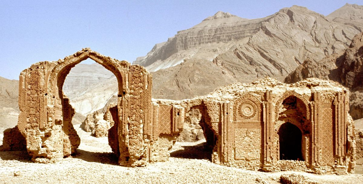 Shad-i Mashhad; Madrasa in Afghanistan